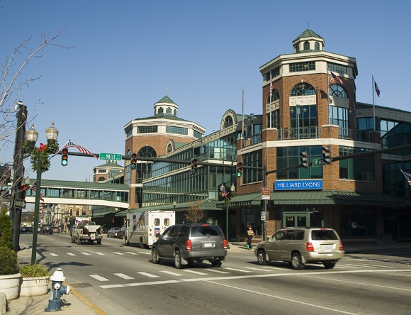 The Triangle Center development in Lexington, Kentucky. It occupies the site of the Miller Brothers Building, which was listed on the National Register of Historic Places in 1980; although destroyed, it has not yet been removed from the Register.